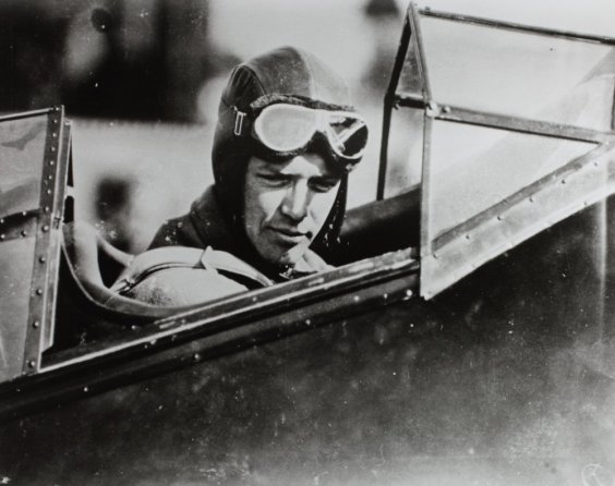 PictionID: 38069131 - Catalog:Array - Title:Array - Filename:AL-84 Album Image _00001.TIF - Images from an Album donated to the Museum by aviation artist John Vanowsky-------------- -------------- --- SOURCE INSTITUTION: San Diego Air and Space Museum Archive